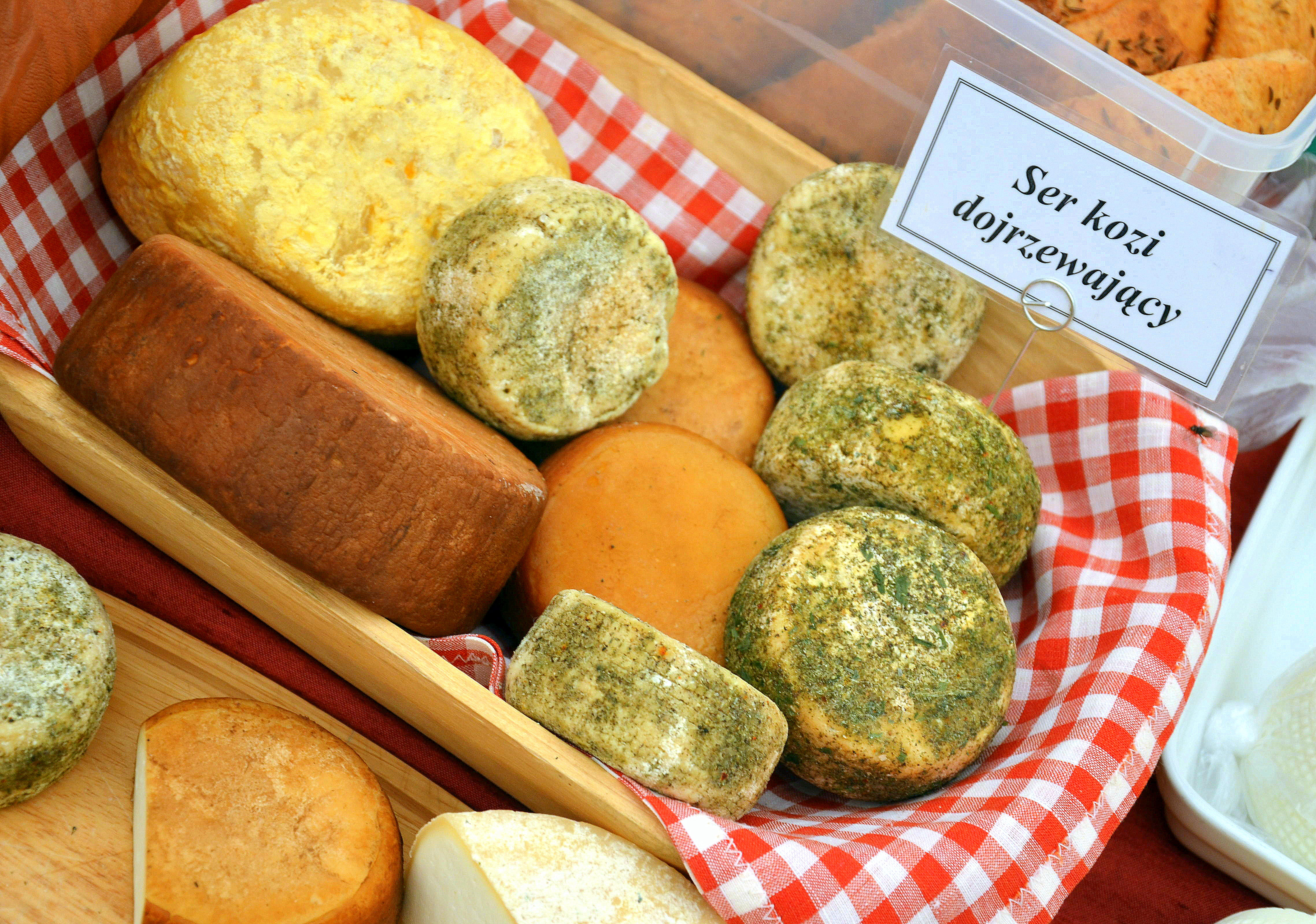 Beskider Käse aus Ziegenmilch 2013; Goat's-milk cheeses from Poland; Northern Subcarpathians